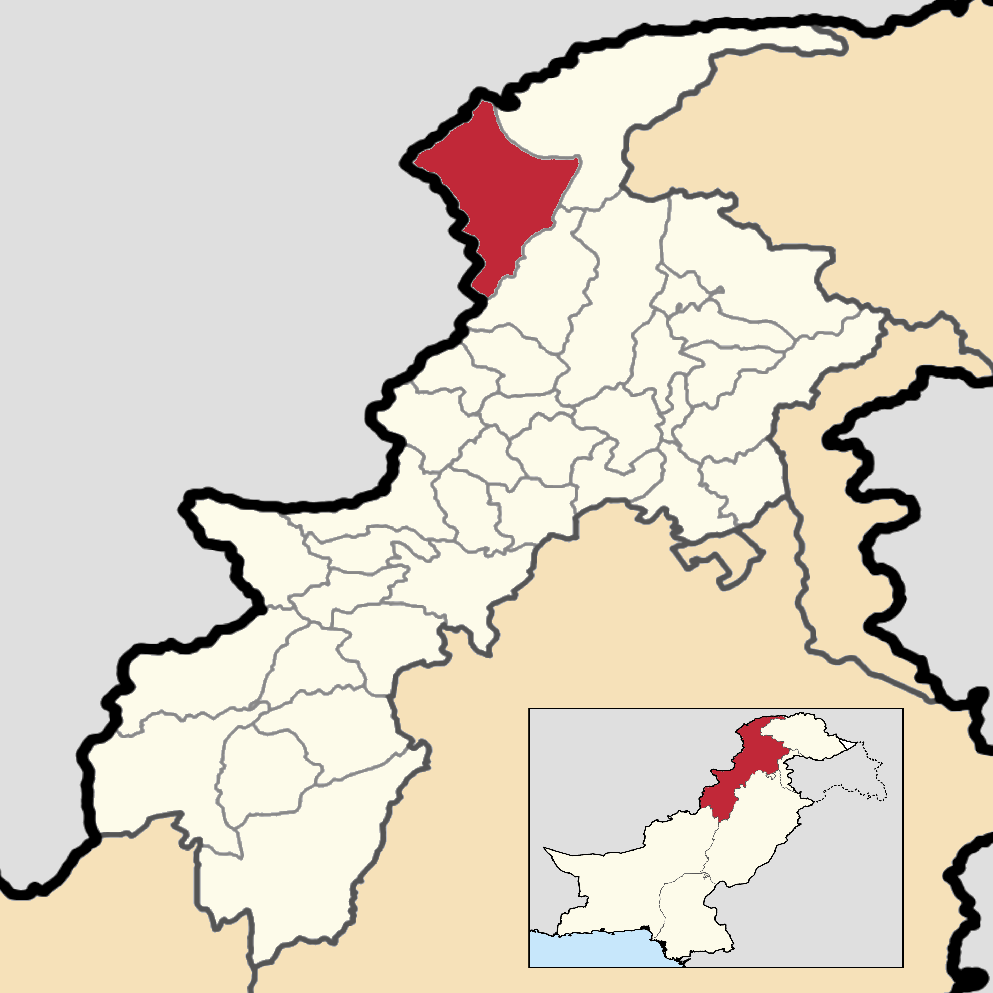 This is a map showing the location of Lower Chitral District within Khyber Pakhtunkhwa Province. You can find information about the sources used on this map, showing every district in Khyber Pakhtunkhwa Province. This map and its borders are up to date as of June 16, 2020.